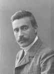 Portrait of Ivan Naumov.